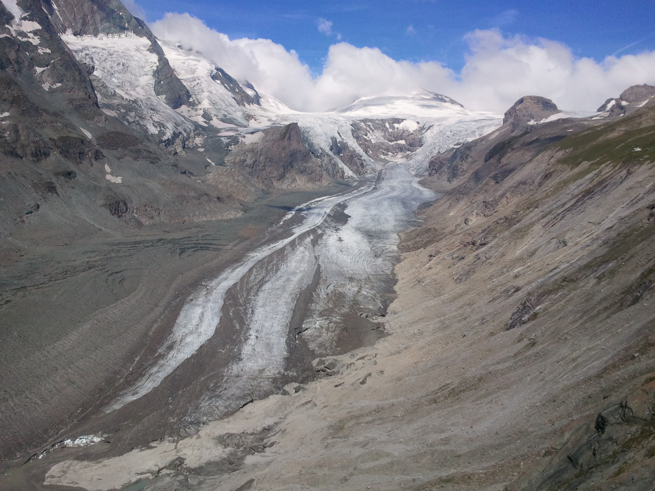 Pasterze in 2012